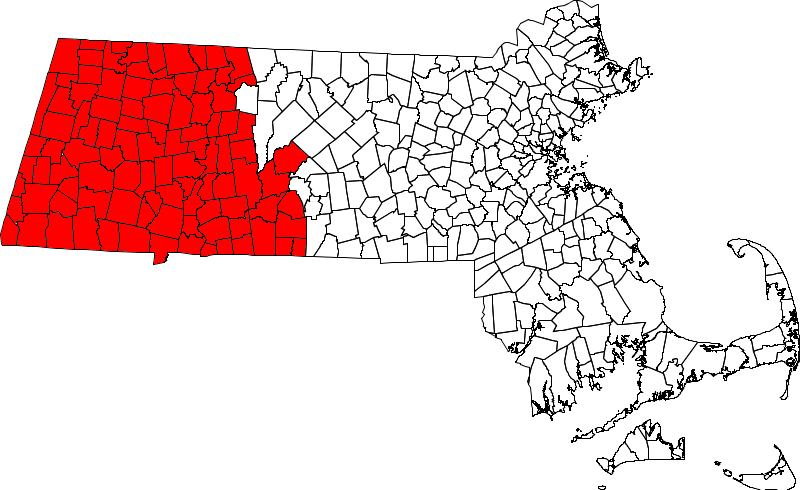 The original image is from the massachusetts site in the public domain. I filled in the area codes myself.